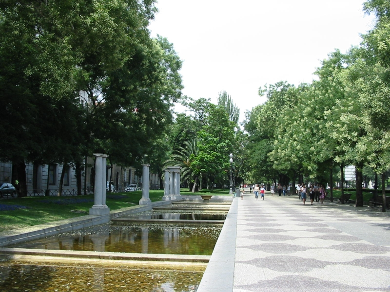 View from Paseo de Recoletos (a boulevard) in Madrid (Spain).